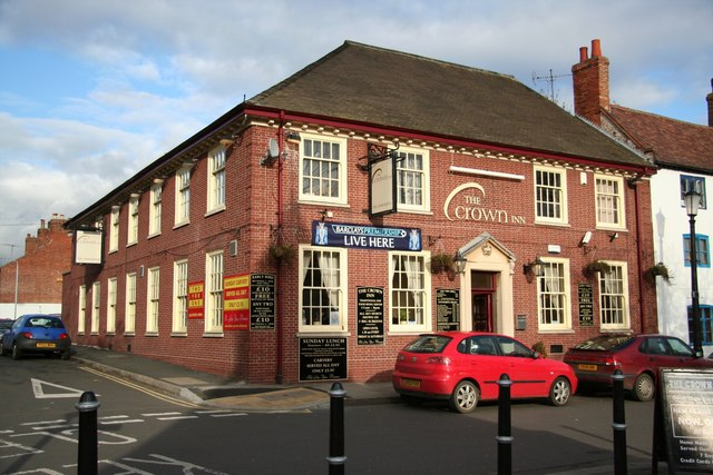 The Crown Pub in Bingham Marketplace